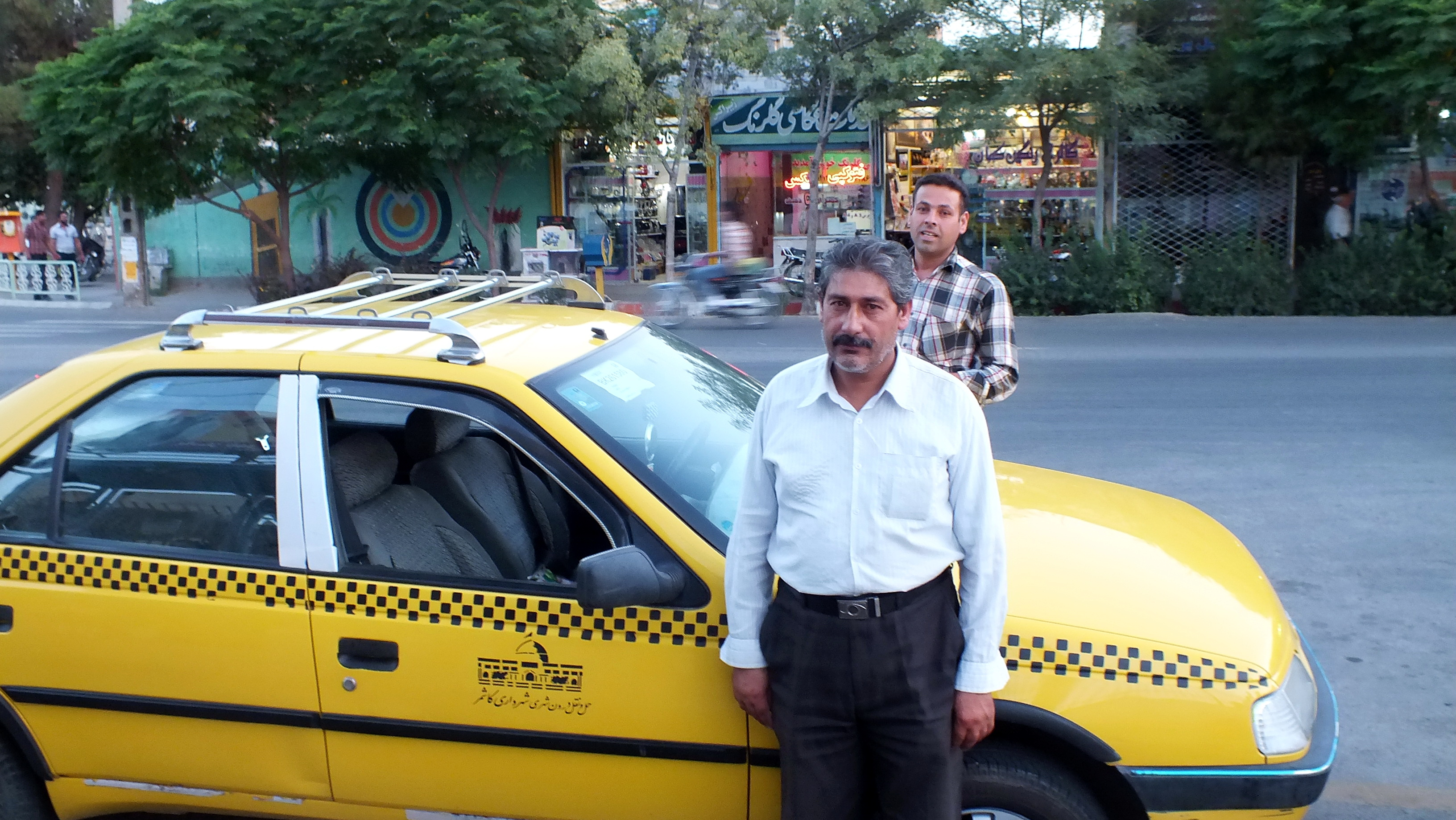 Taxi and taxi driver in Kashmar, Iran.